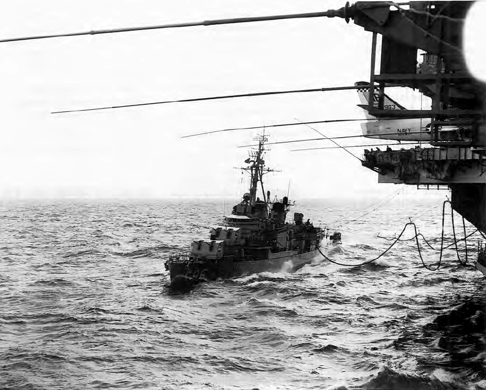 The U.S. Navy destroyer USS English (DD-696) refuels from the aircraft carrier USS Independence (CVA-62) while the two ships steam toward the Caribbean Sea during the Cuban Missile Crisis, in October 1962.